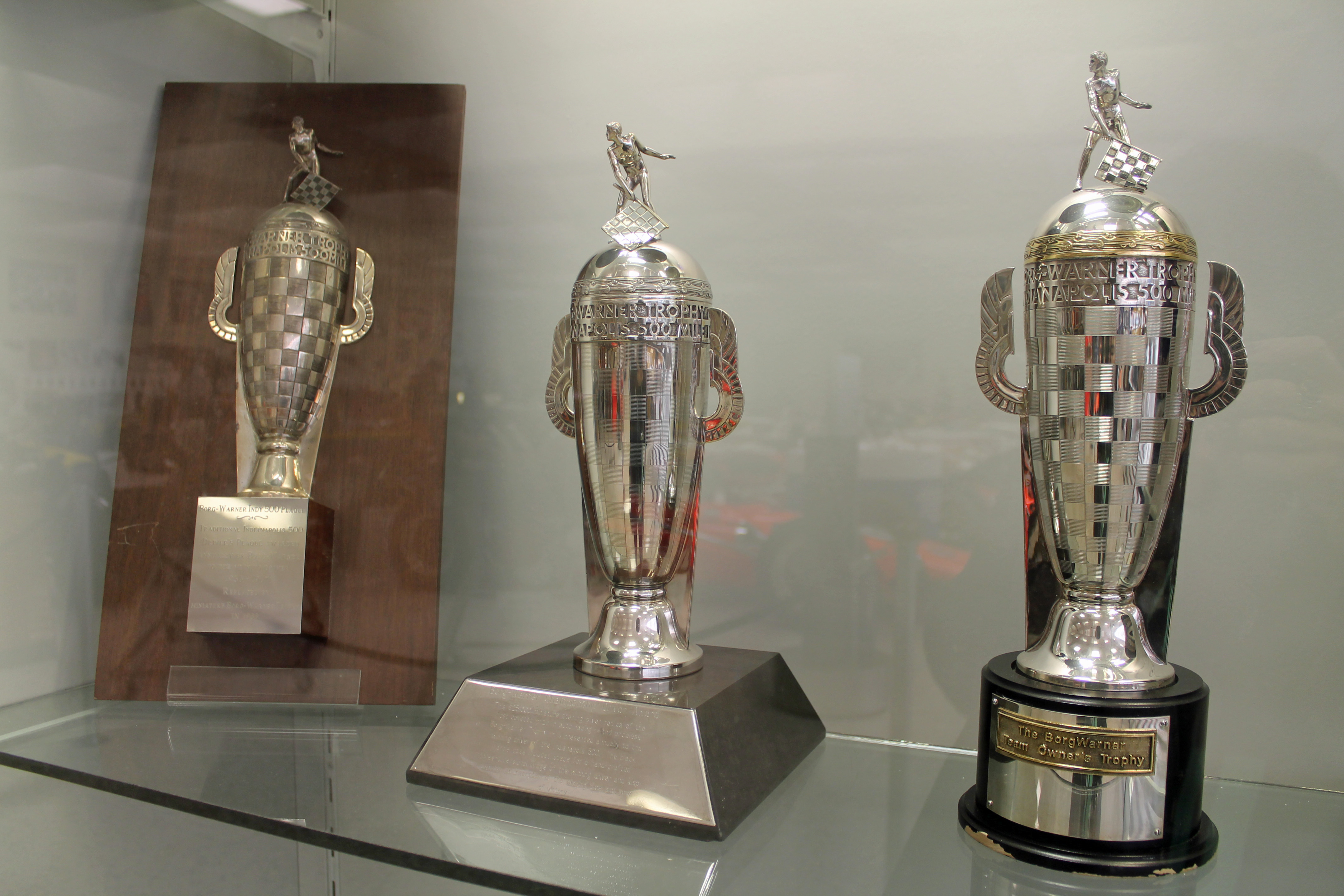 Mini versions of the Borg-Warner trophy. The version on the right is the type that winners of the Indy 500 receive now in lieu of the giant version.